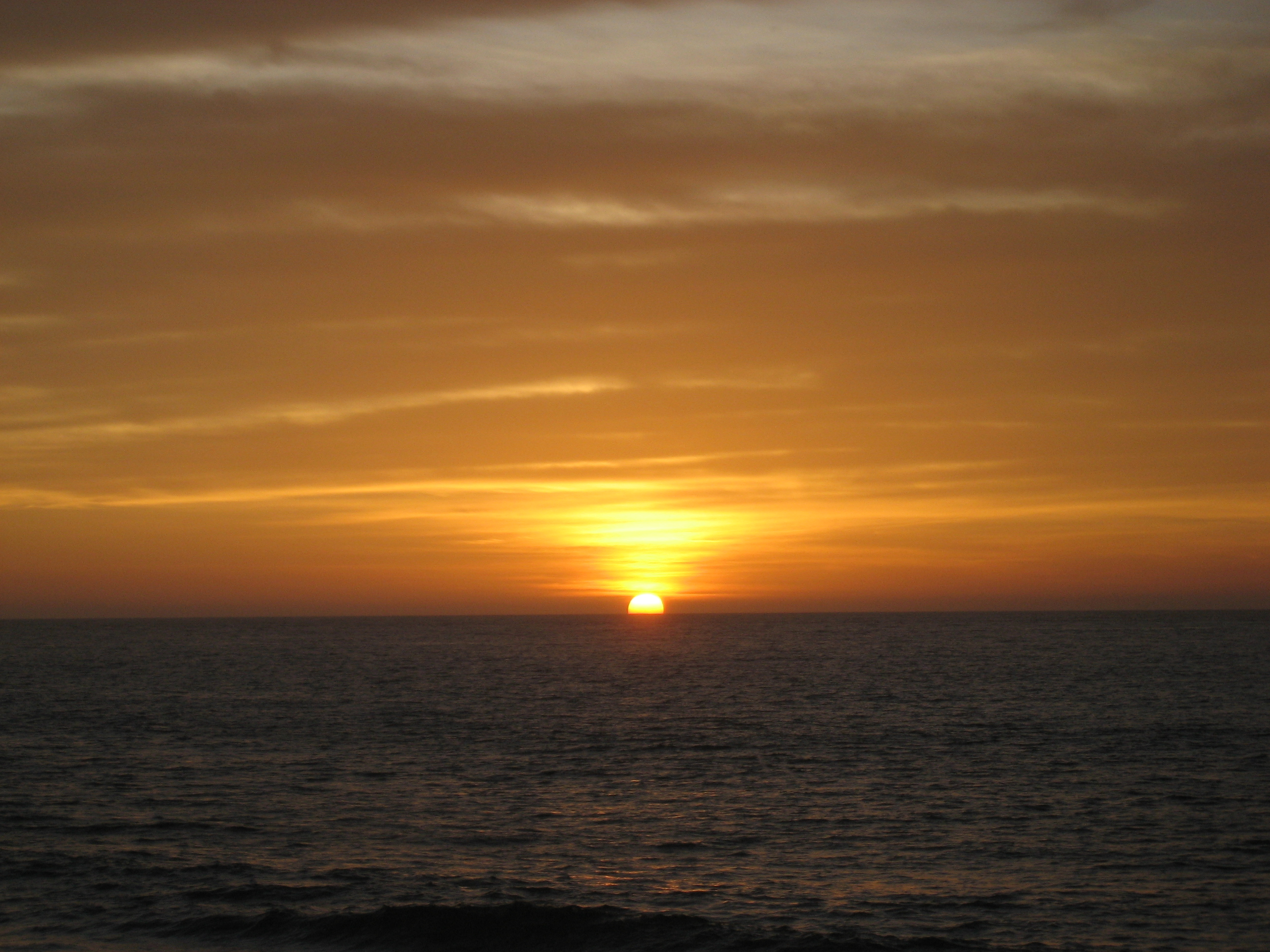 Over the Atlantic, seen from a beach near Namibe, Angola.